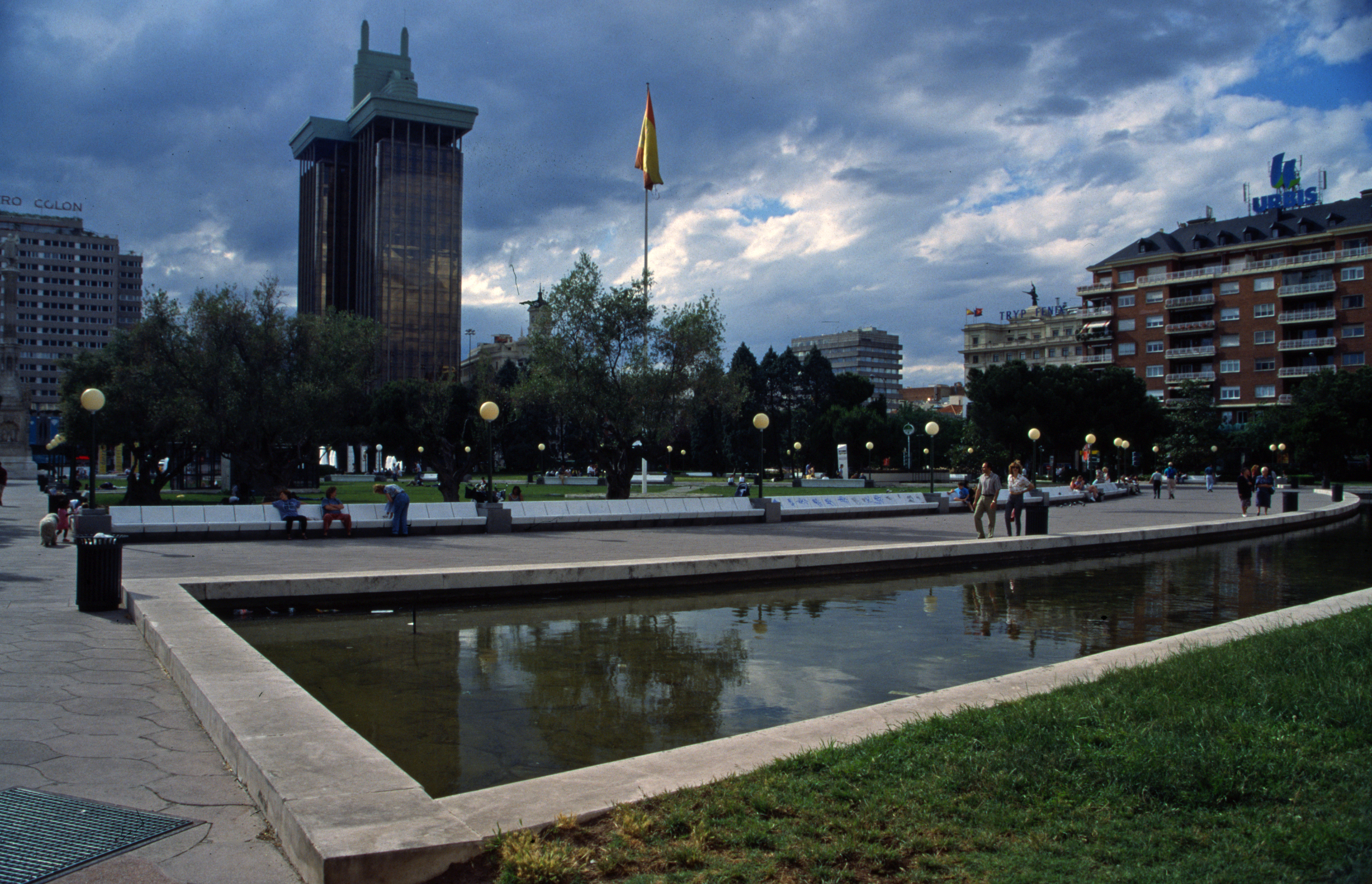 Jardines del Descubrimiento ("Gardens of Discovery"), at the Plaza de Colón (Columbus Square) in Madrid (Spain). Background left: Torres de Colón (building).